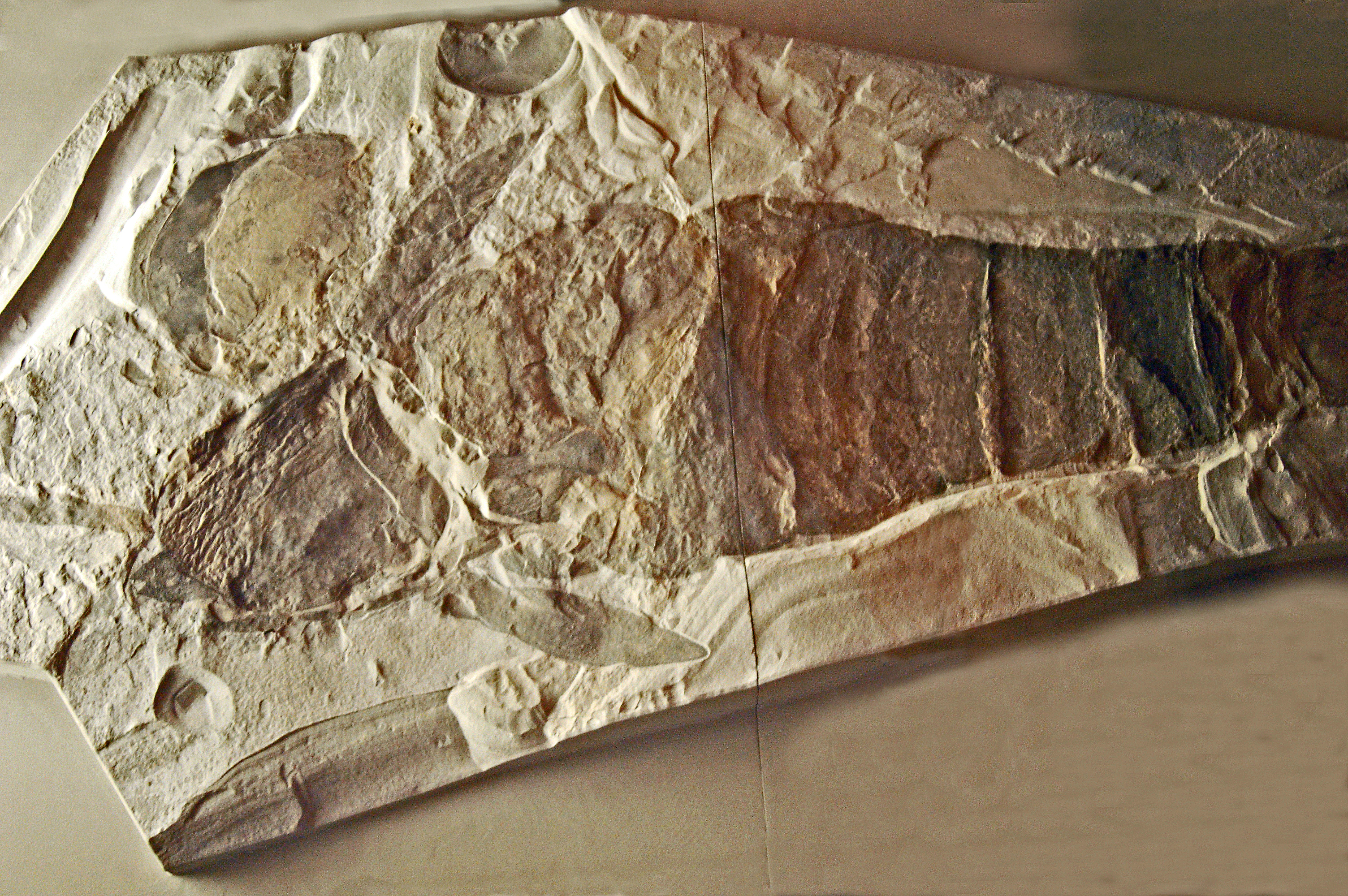 Acutiramus macrophthalmus found near Ilion, New York State on display at Royal Ontario Museum, Toronto